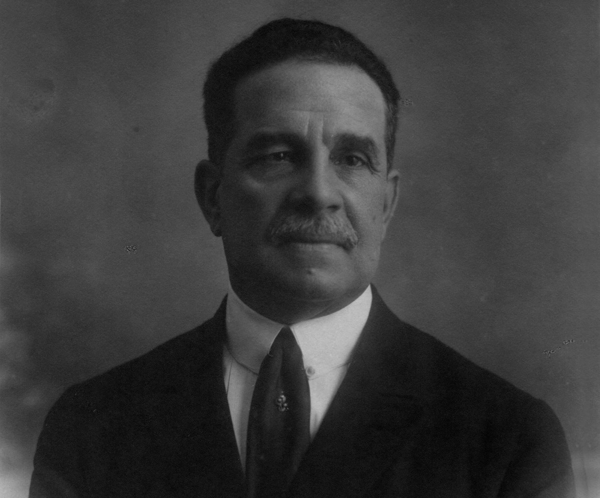 Francisco Bens Argandoña